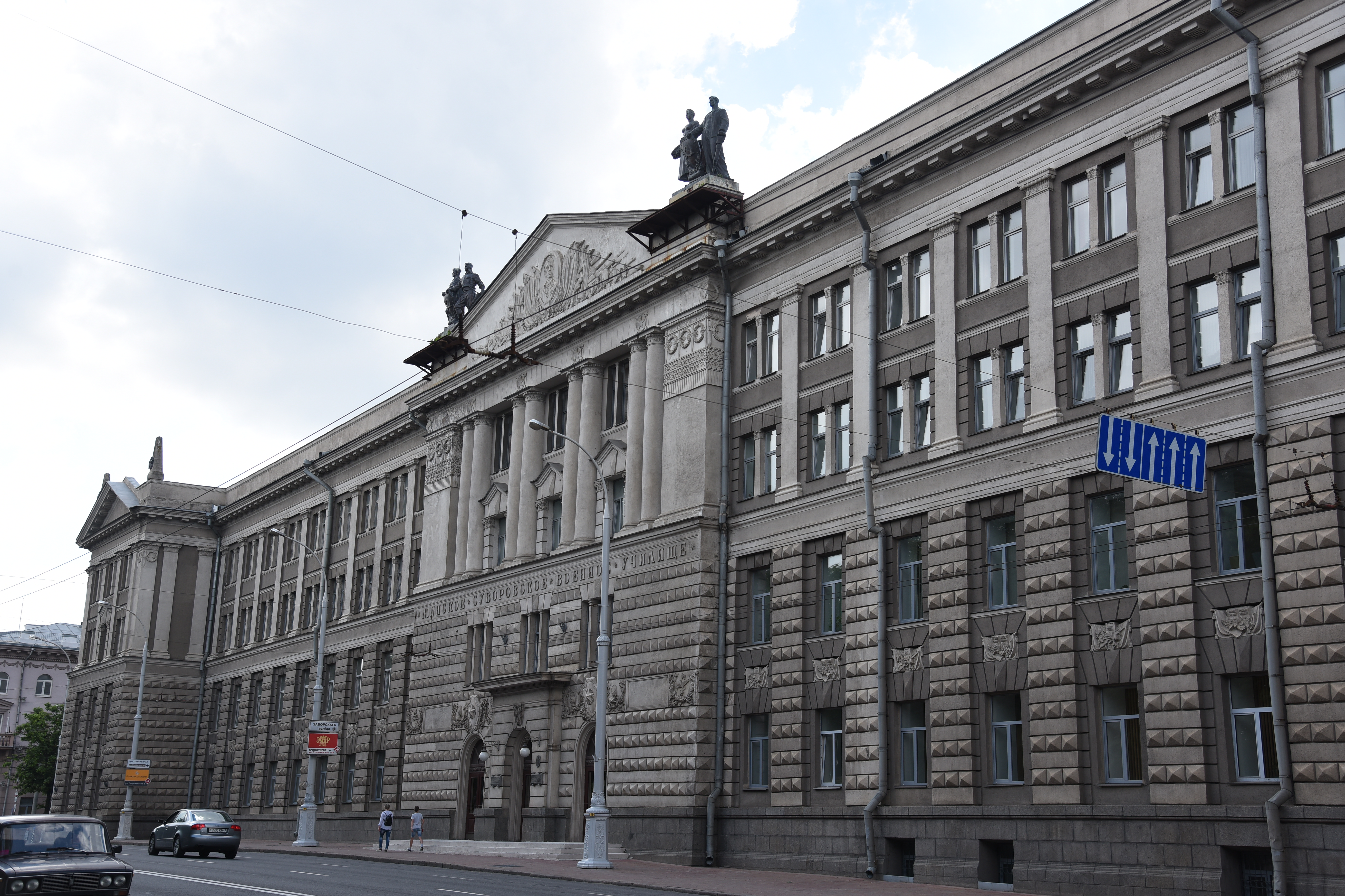 Minsk Suvorov Military School